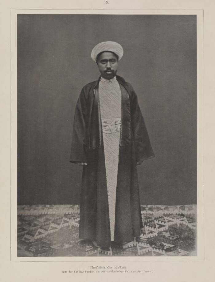 This full-length length standing portrait shows a member of the Banī Shaybah, a gatekeeper of the Kaaba. c. 1880